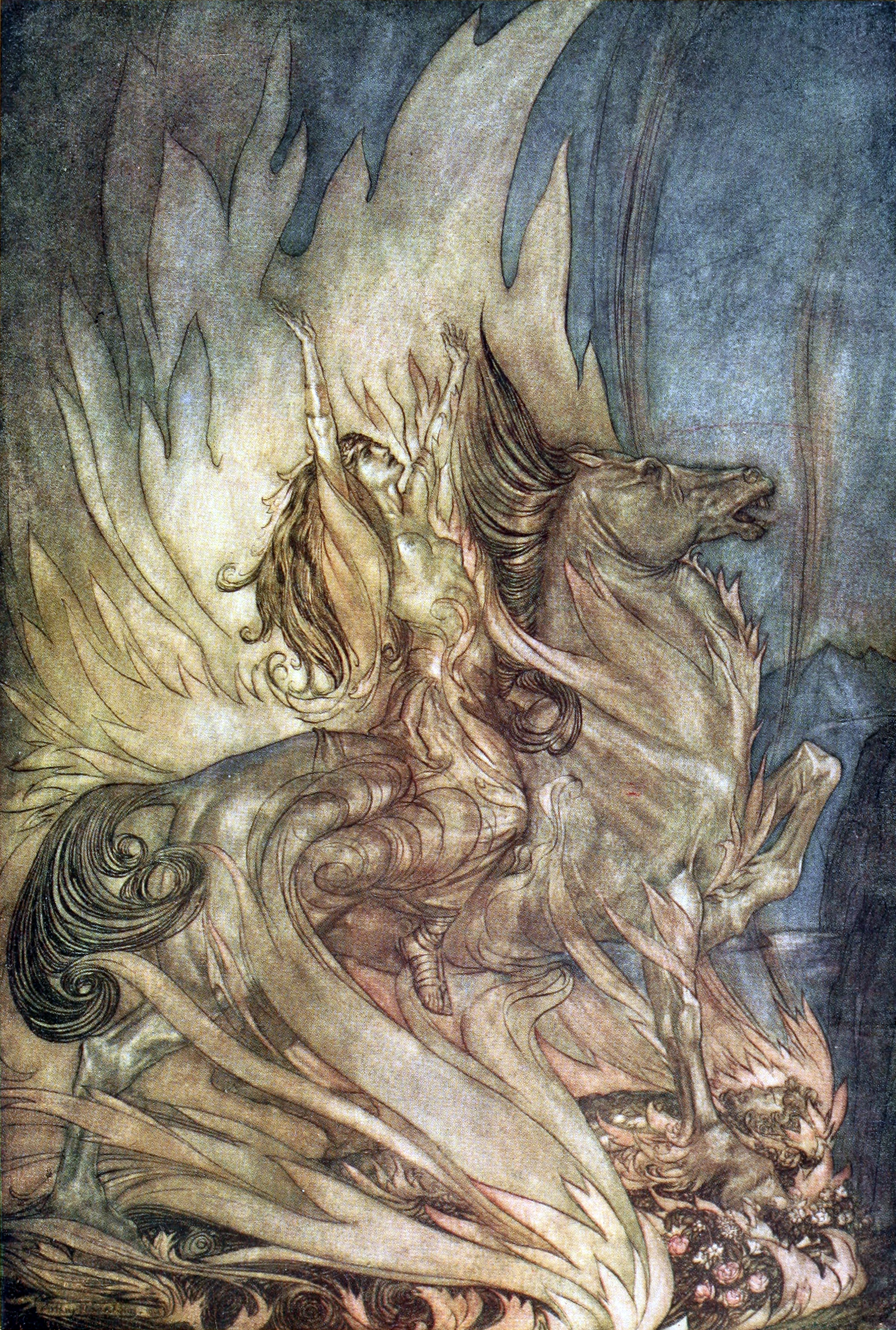 Brünnhilde on Grane leaps onto the funeral pyre of Siegfried.